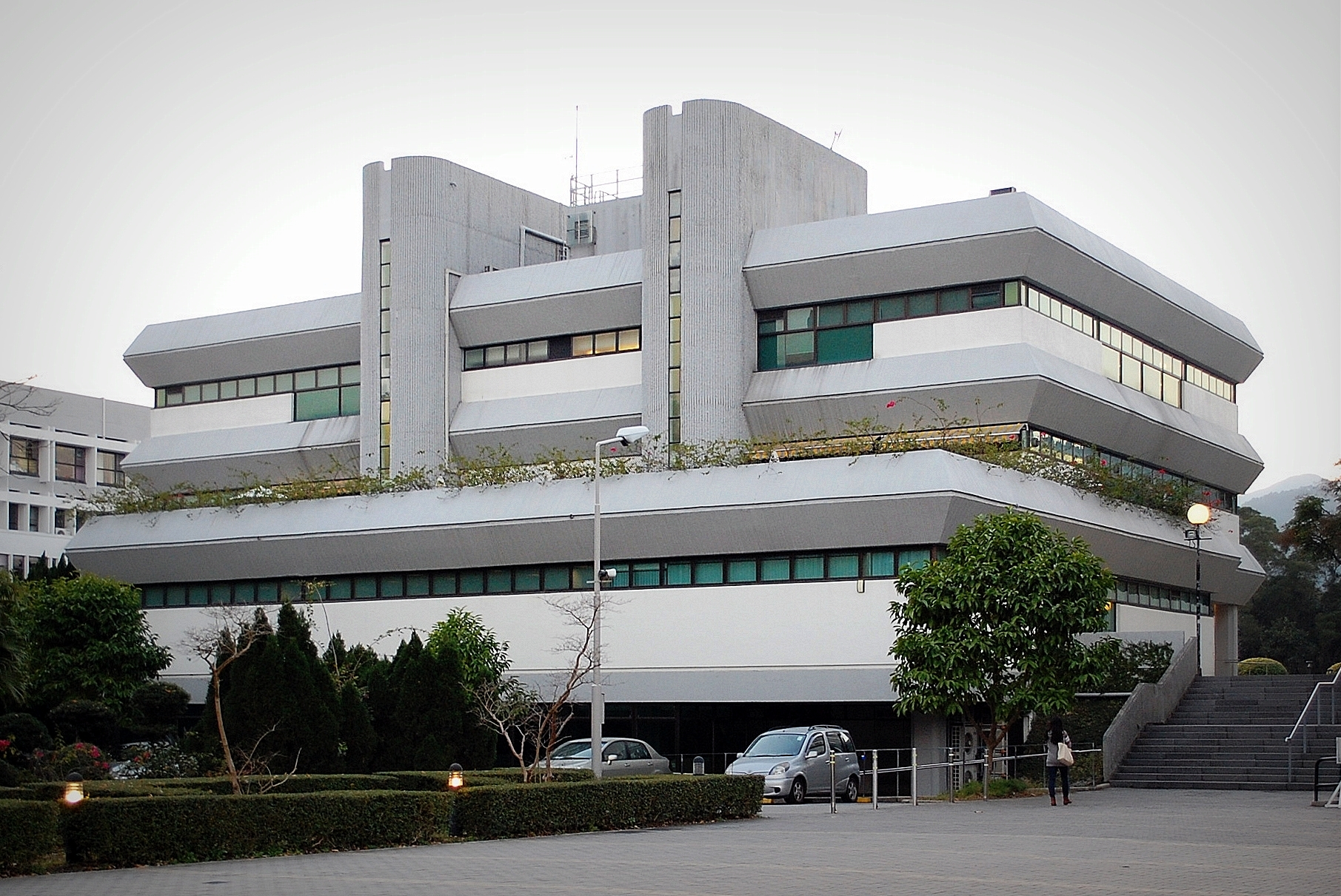 Wu Chung Multimedia Library, United College, Chinese University of Hong Kong.中文（香港）: 香港中文大學聯合書院胡忠多媒體圖書館.